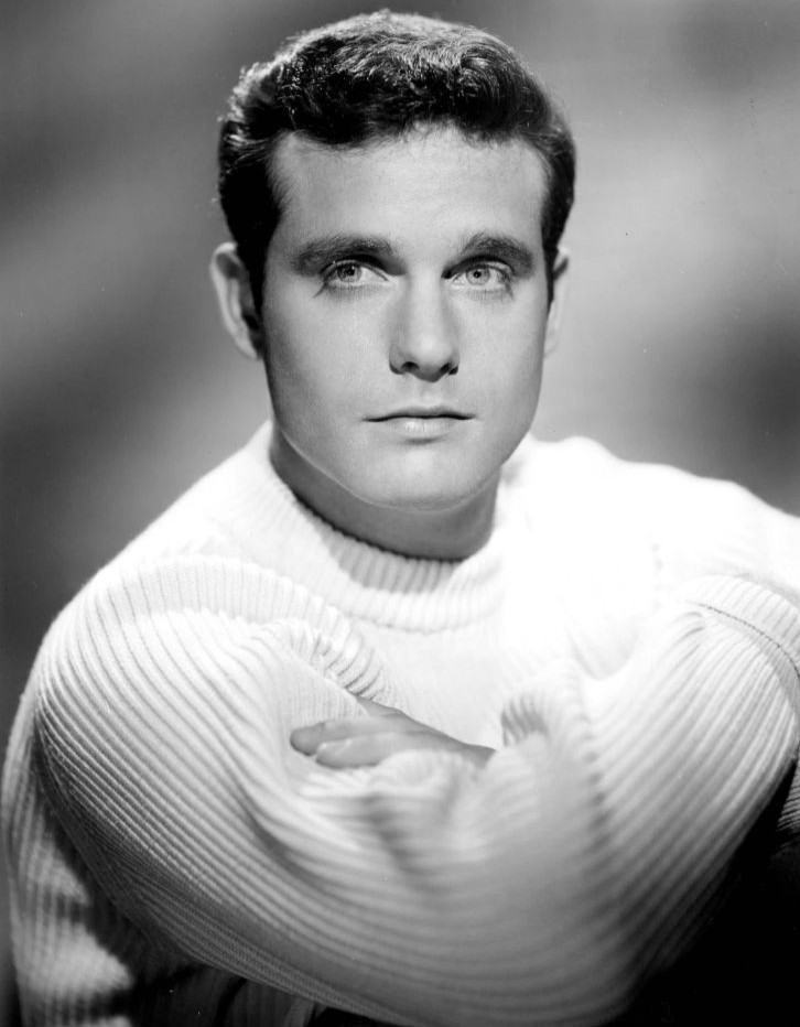 Photo of music arranger, composer and record producer Buddy Bregman from his television program The Music Shop Starring Buddy Bregman.